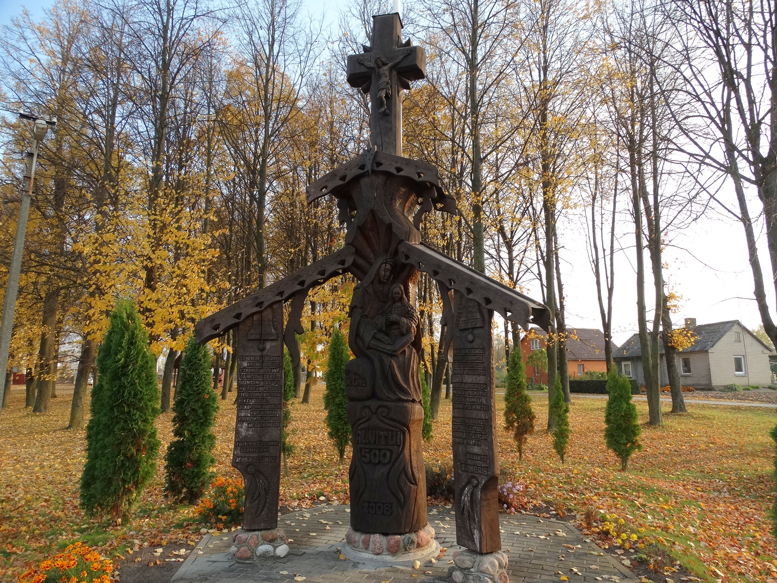 Cross „Alvitas 500 years“, Vilkaviškis District, Lithuania